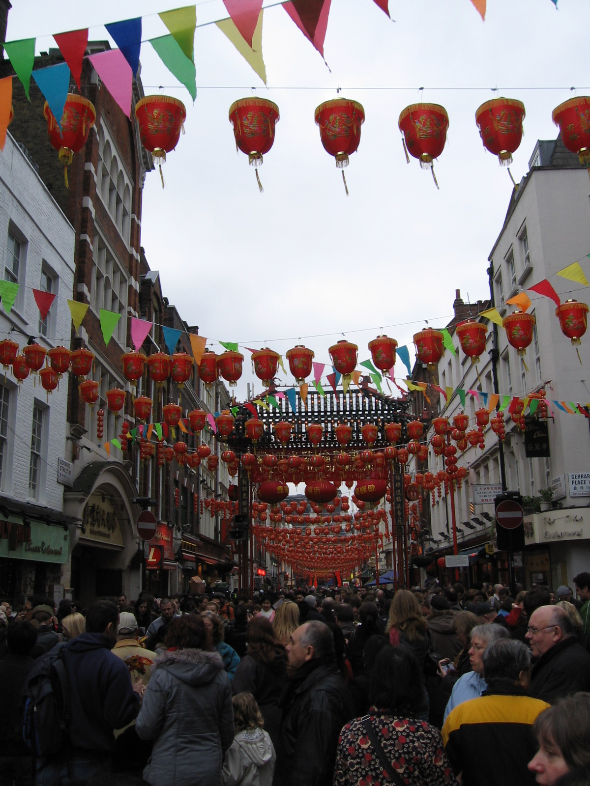 Chinese New Year Celebrations in London's Chinatown. Photographed by Ian A. Holton